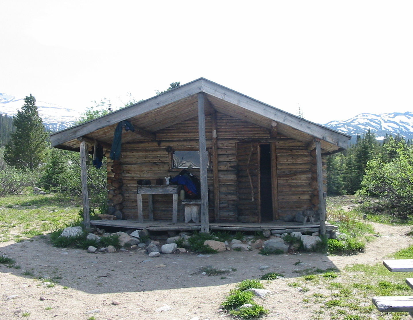 I picture I took of the Lindeman Campground on the Chilkoot Trail